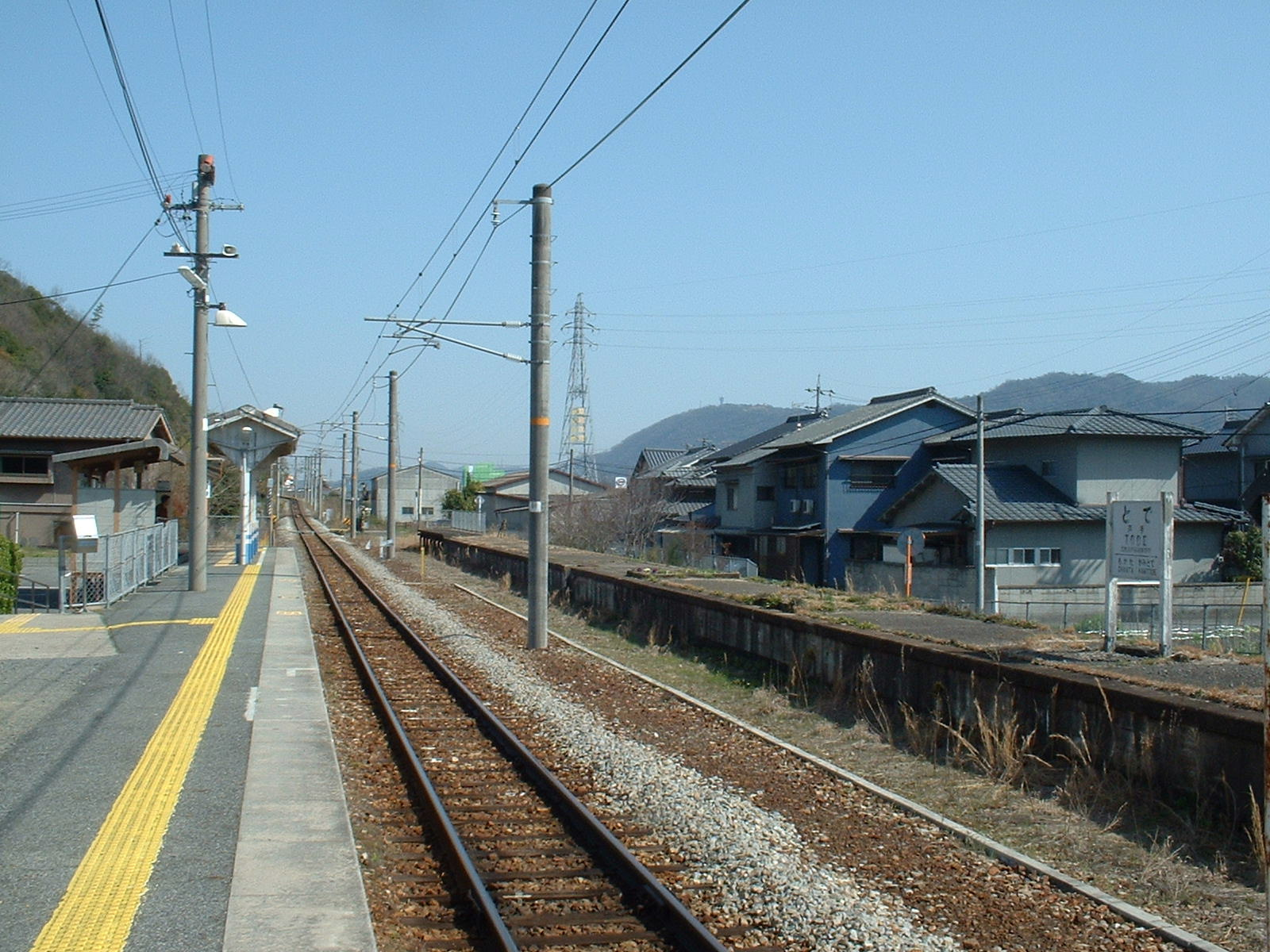 Tode Station